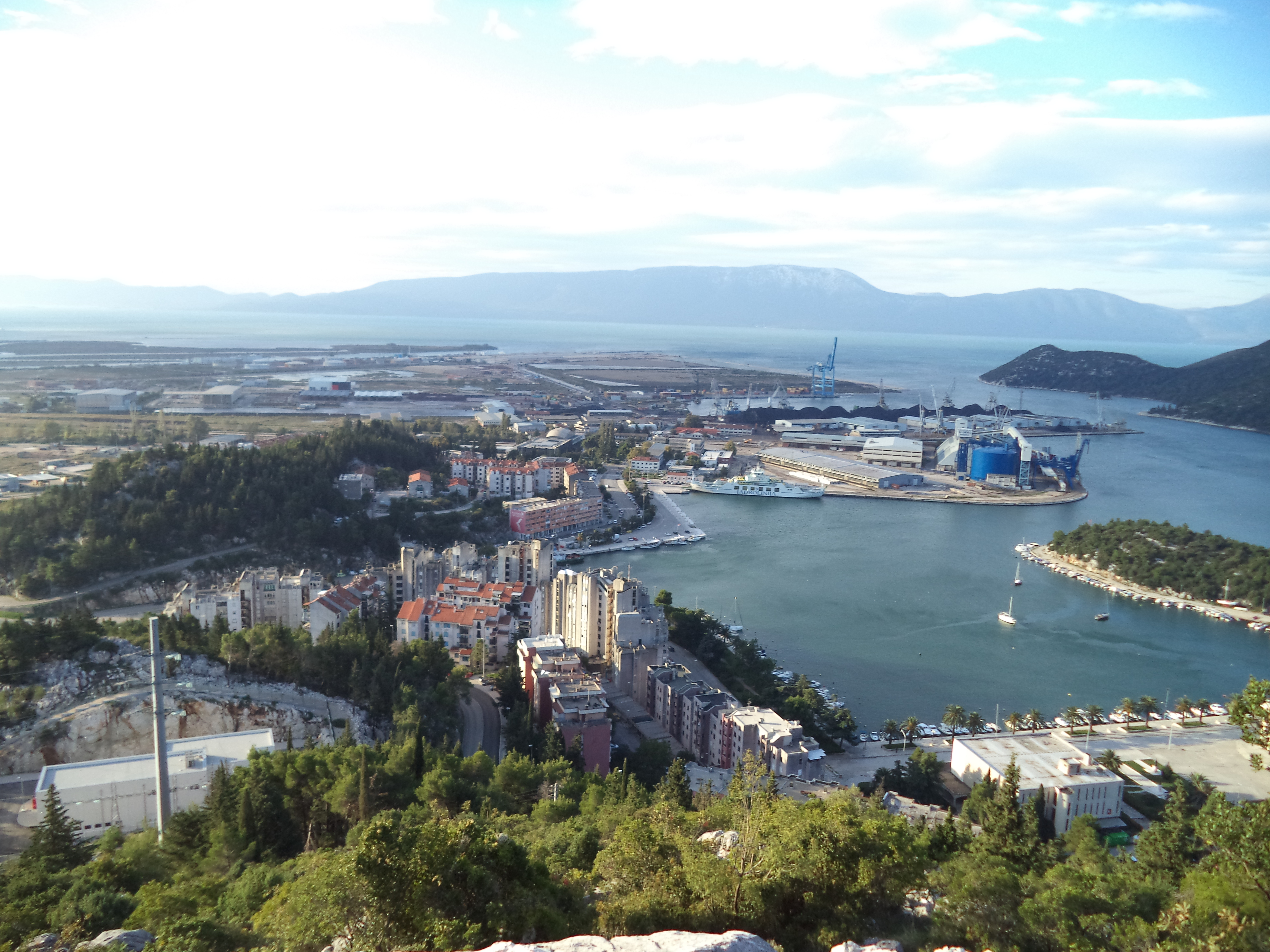 Port of Ploče